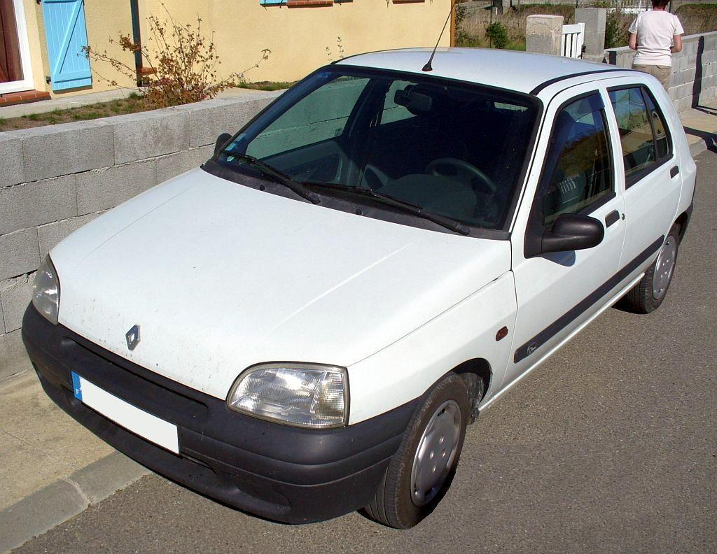 Renault Clio I Phase III